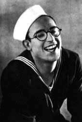 Harold Lloyd in A Sailor-Made Man, 1921.